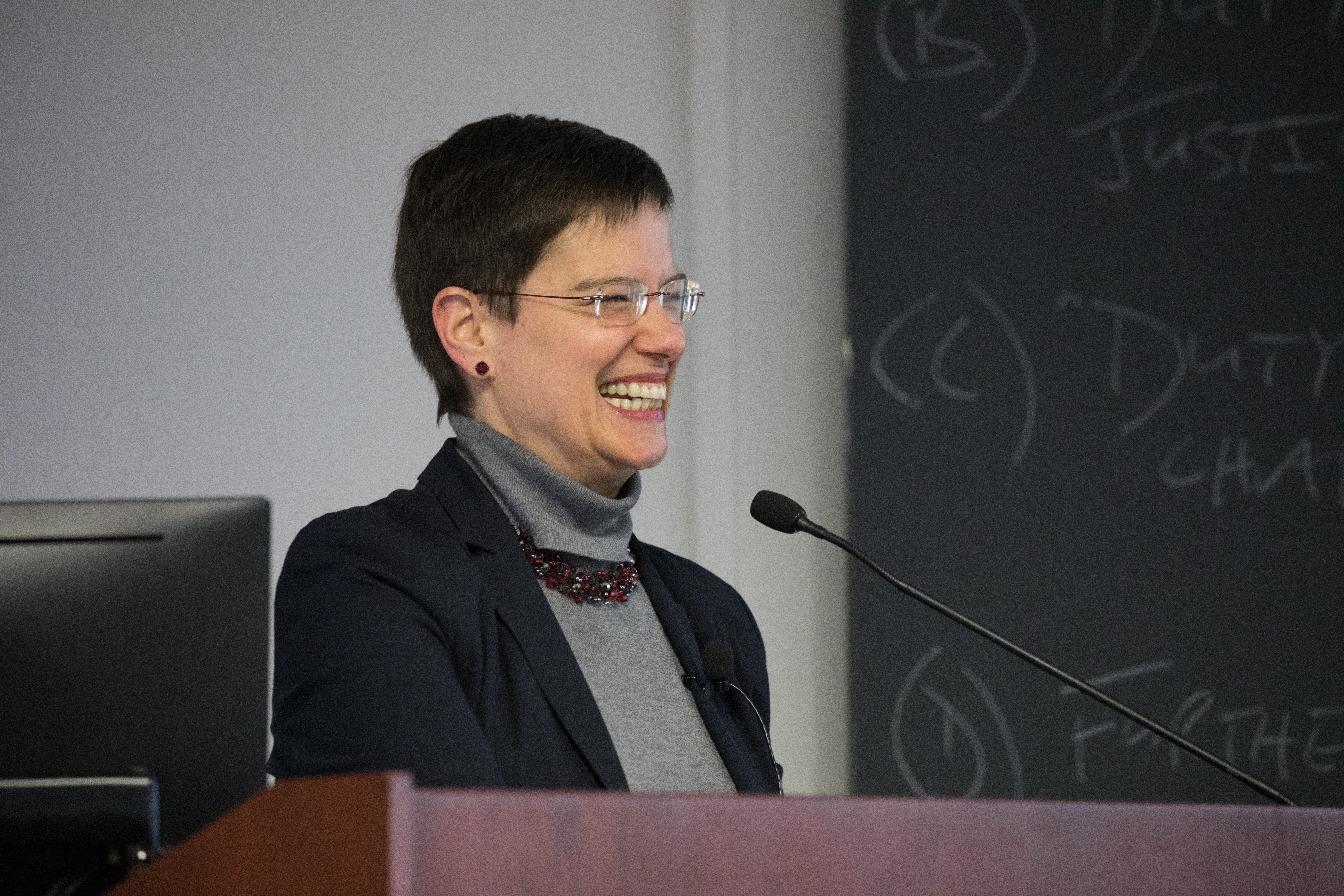 Ayelet Shachar at the Edmond J. Safra Center for Ethics